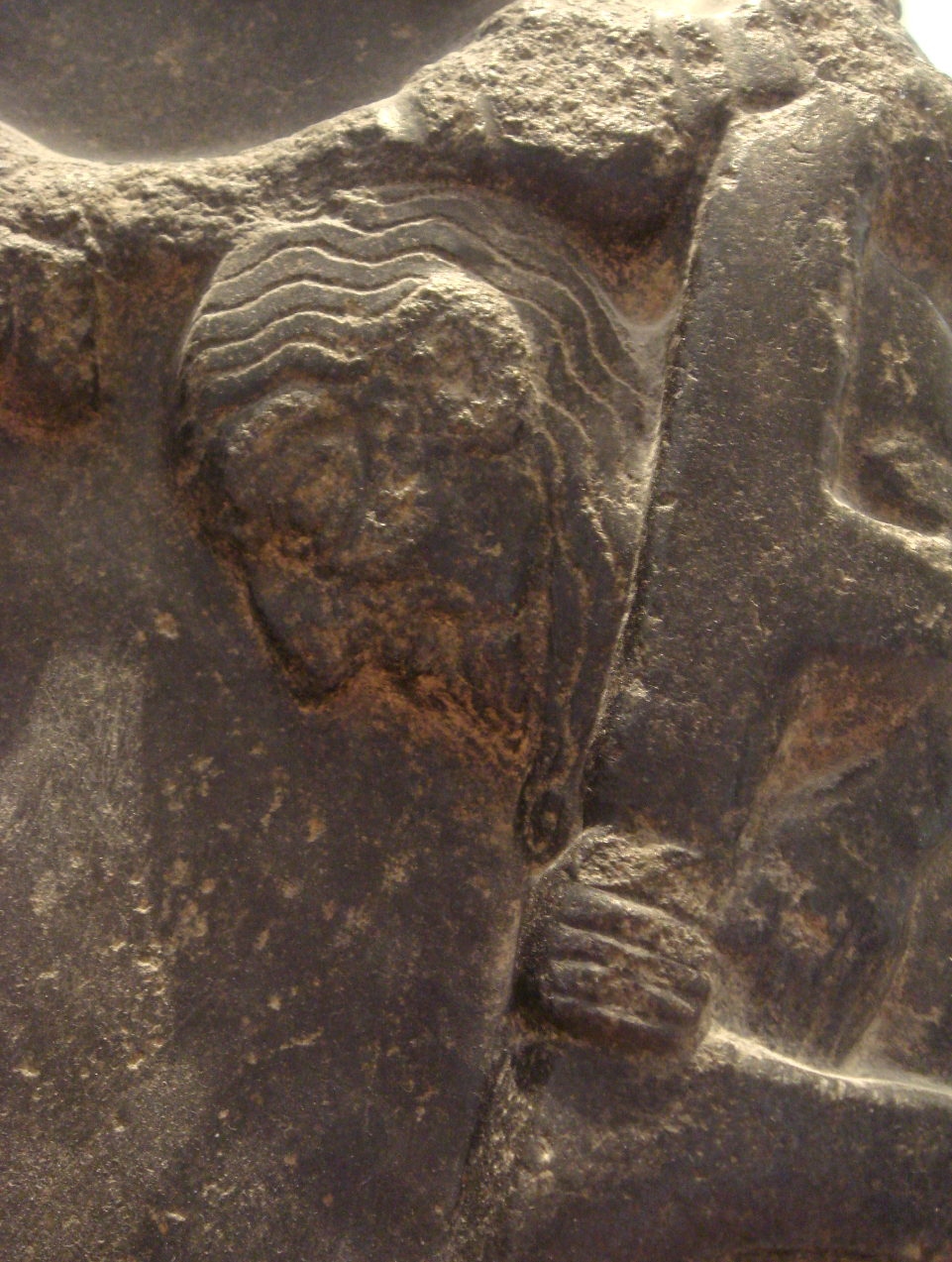 Prisoner exiting a cage, on an Akkadian Empire victory stele circa 2300 BCE, Louvre Museum